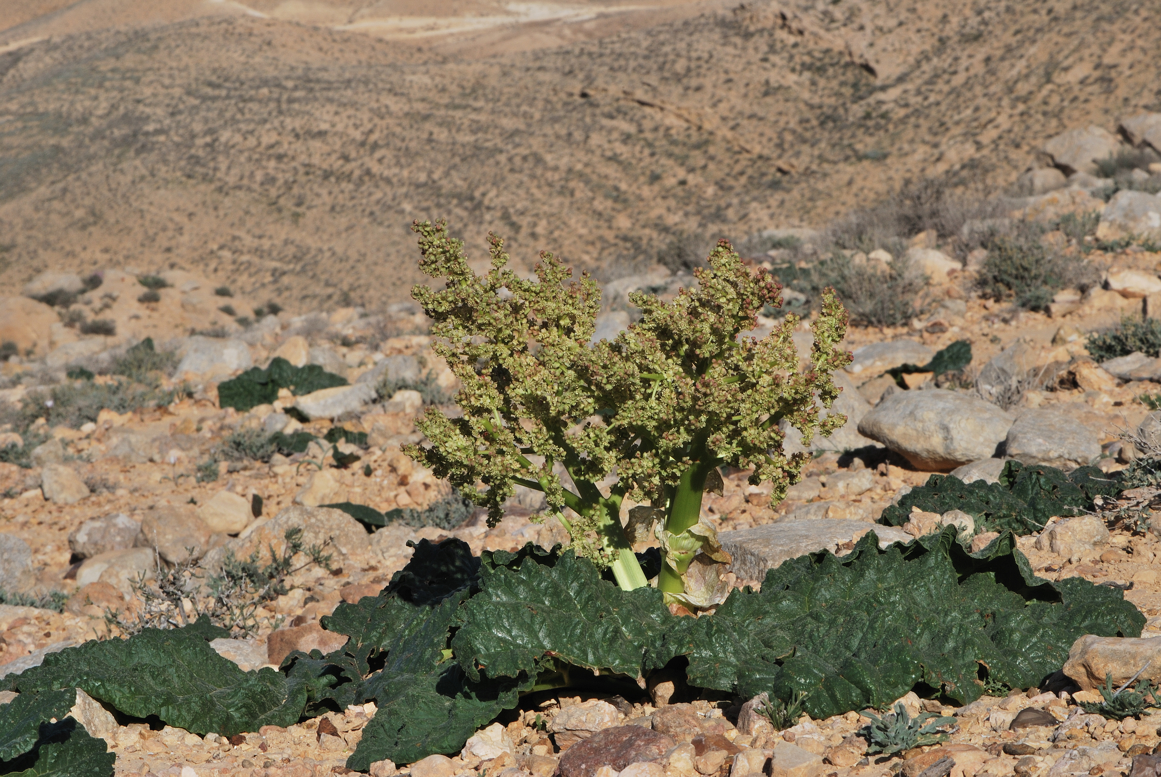 Rheum palaestinum Feinbrun, February 23 2010, Negev Mountains, Israel.